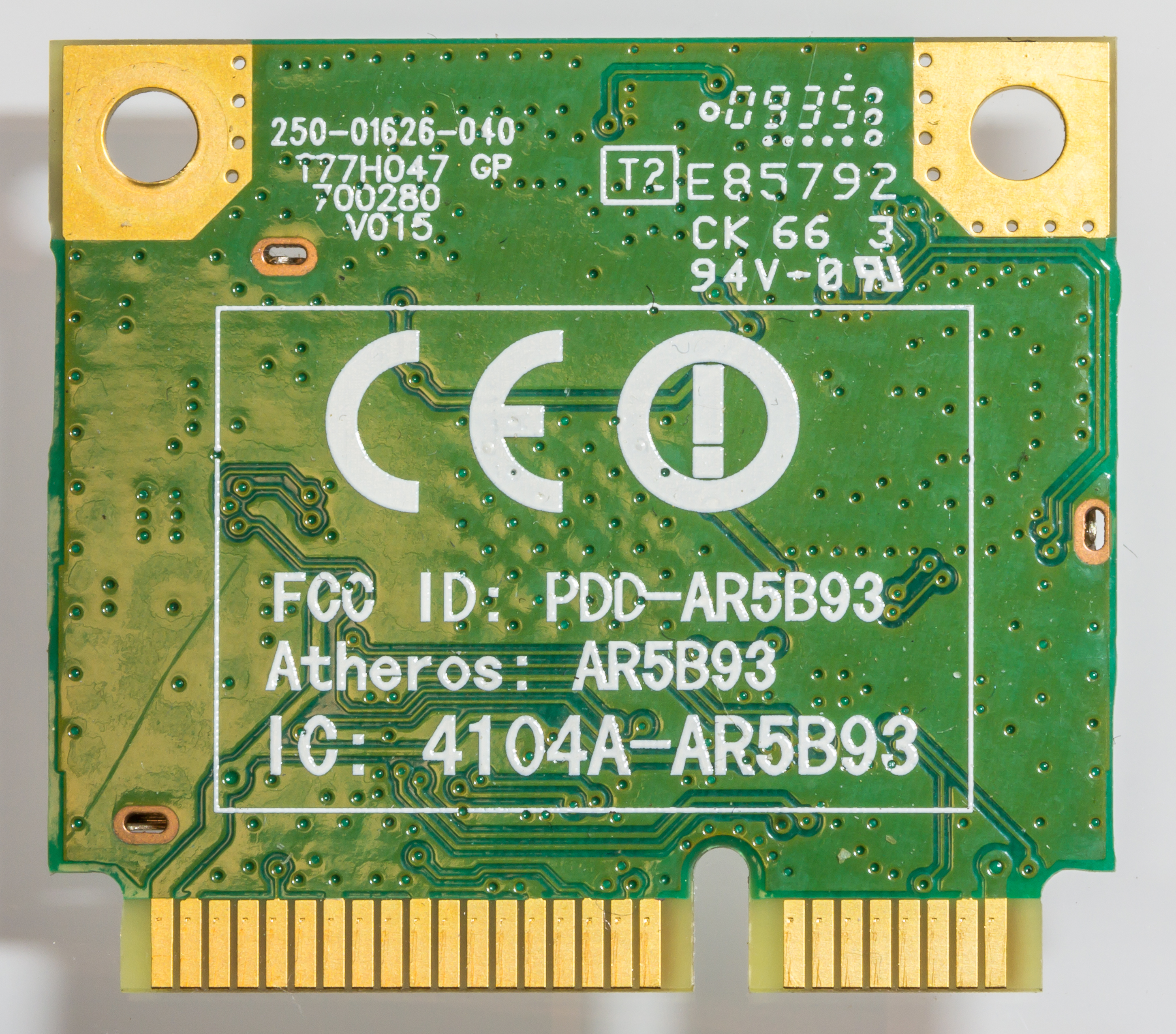 Atheros AR5B93 WiFi Half Mini PCI-E Card AR9283